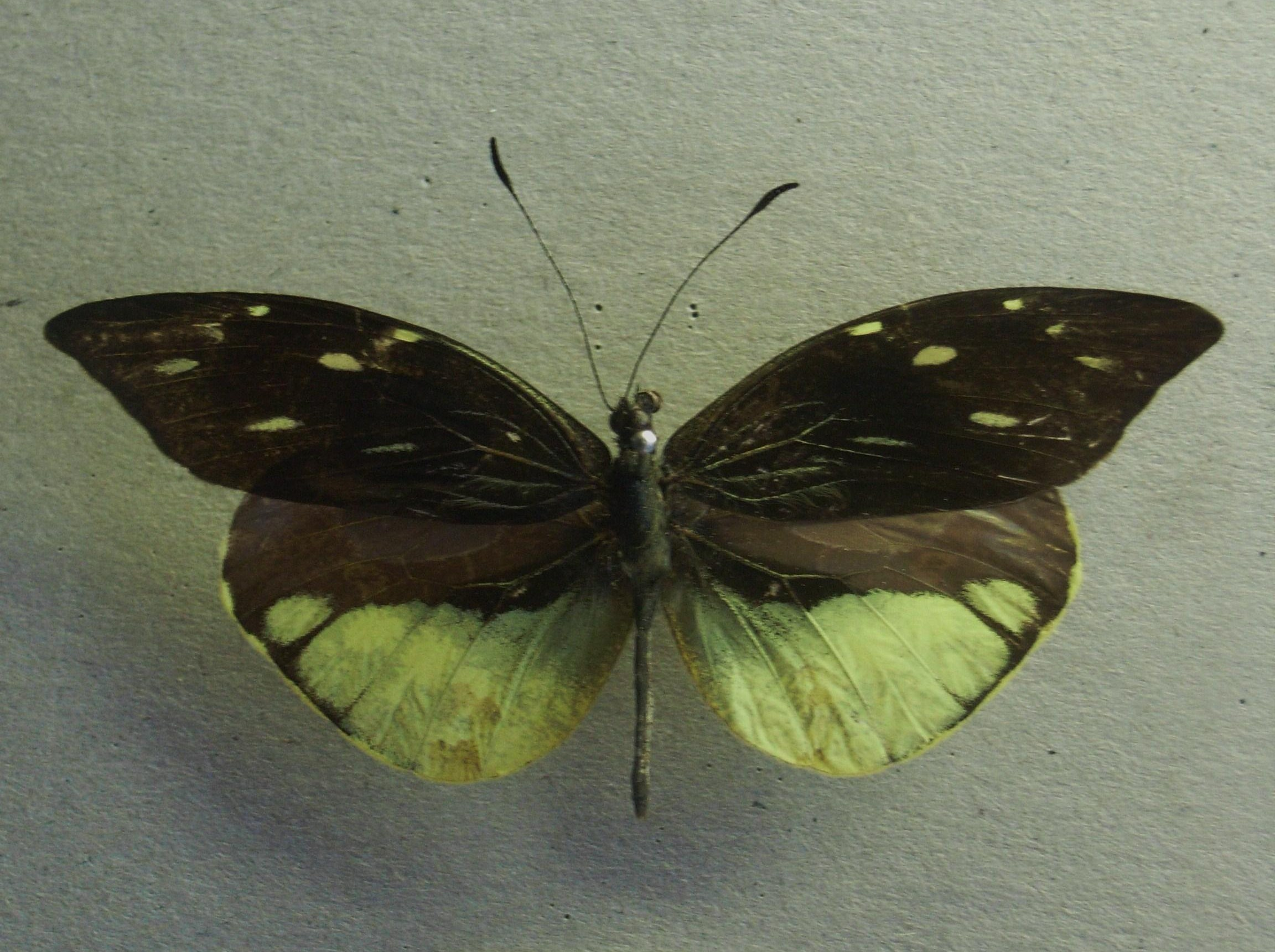 Dismorphia nemesis Capuse:Dismorphiinae:Pieridae Valid name Lieinix nemesis